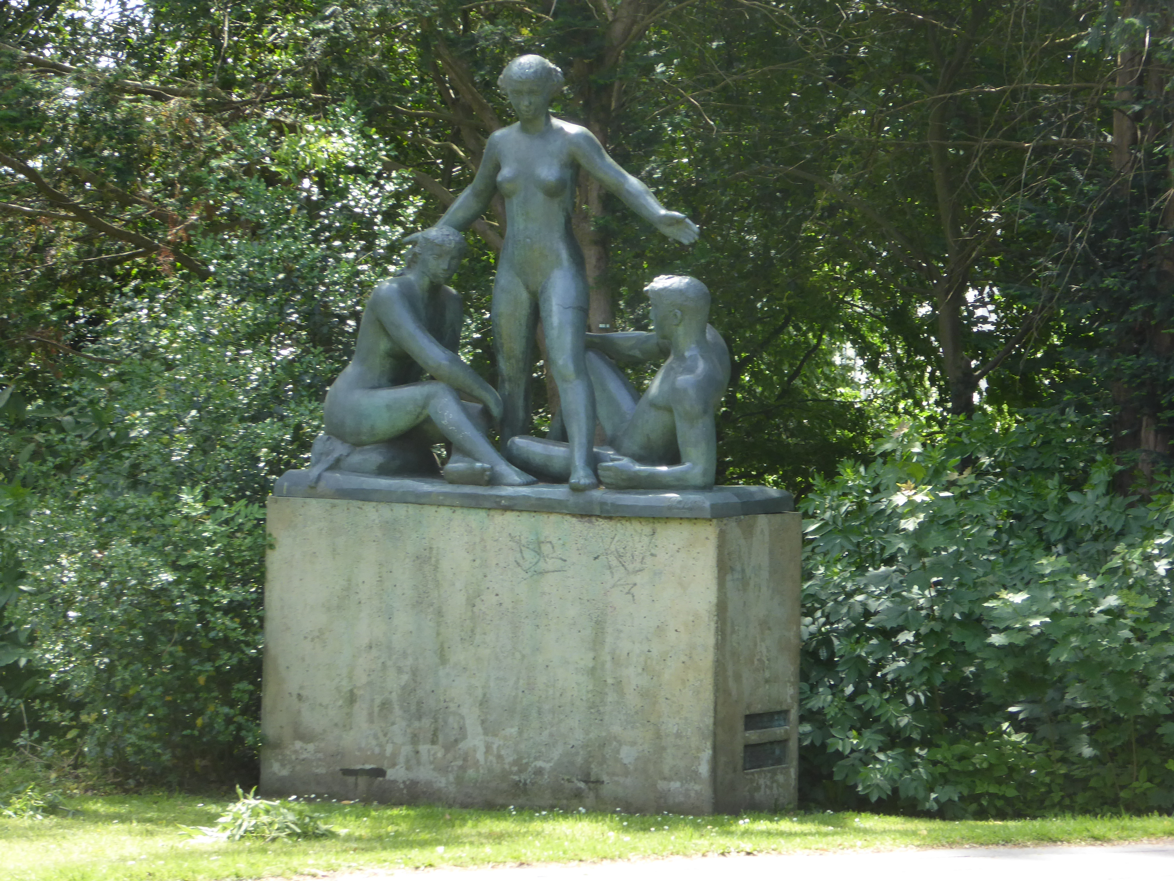 Views of Lübeck